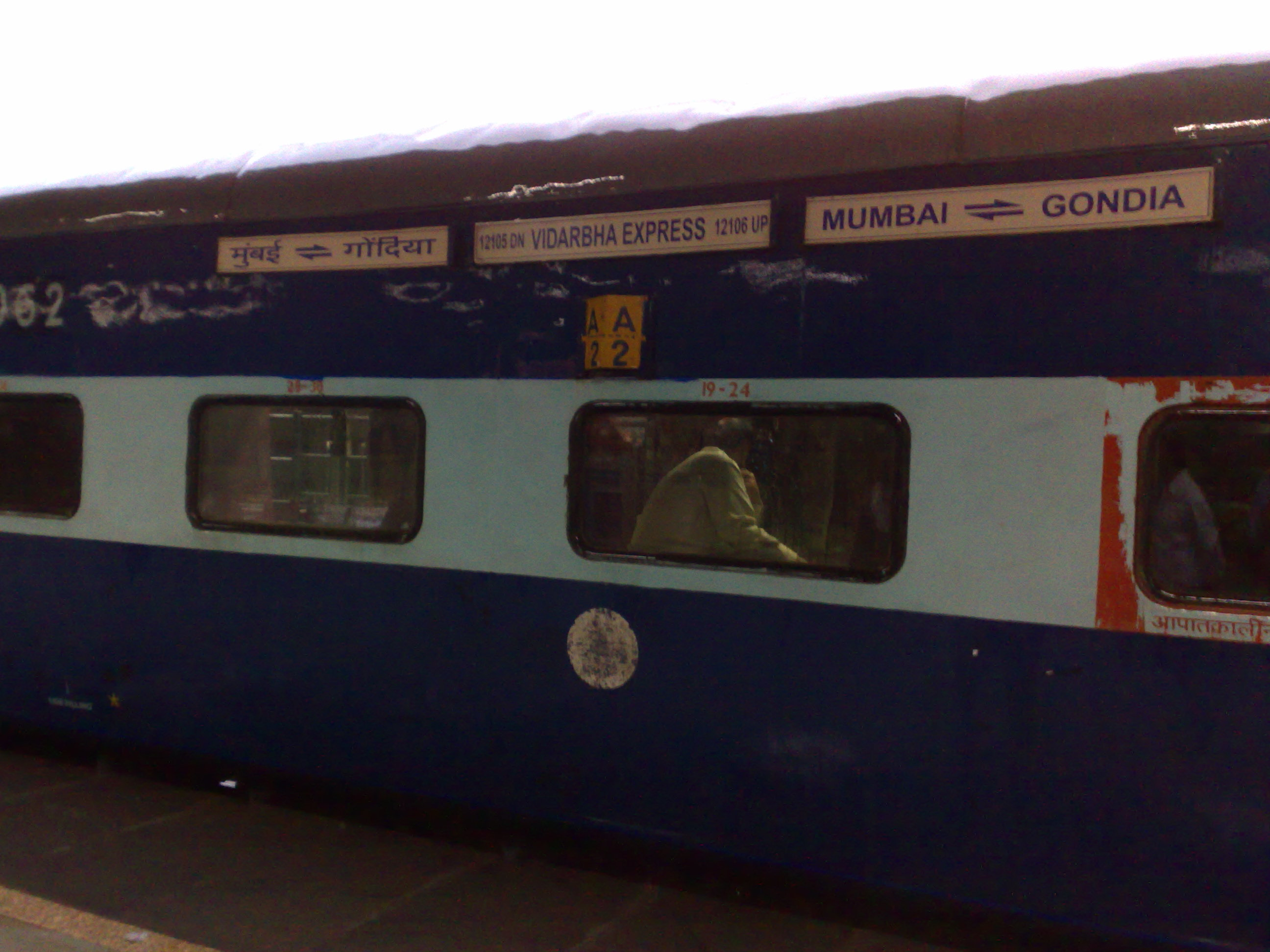 12105 Vidarbha Express AC 2 tier coach